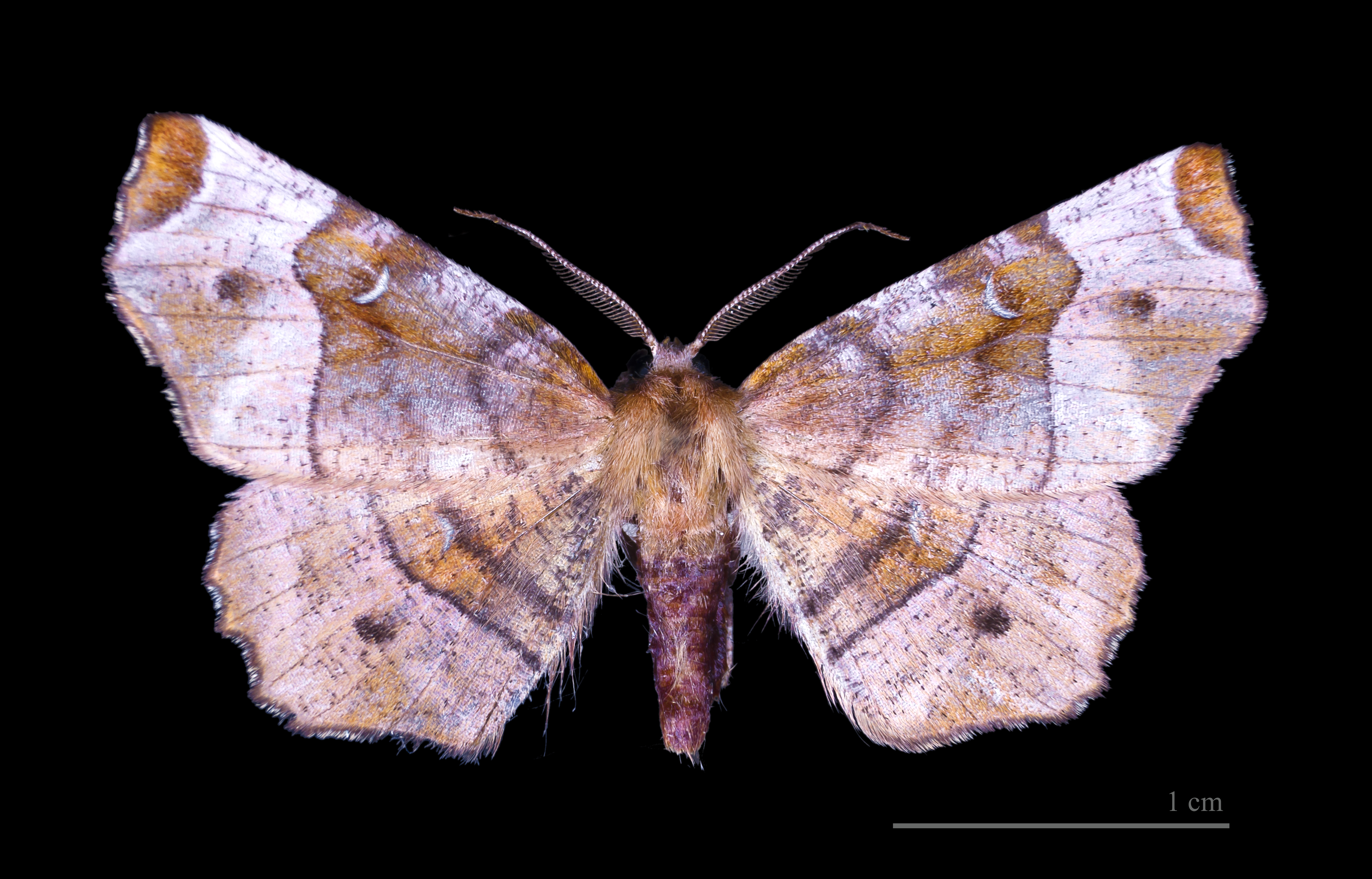 Purple Thorn ♂ - Dorsal side Locality: Lasparets, Sainte-Croix-Volvestre, Ariège, France